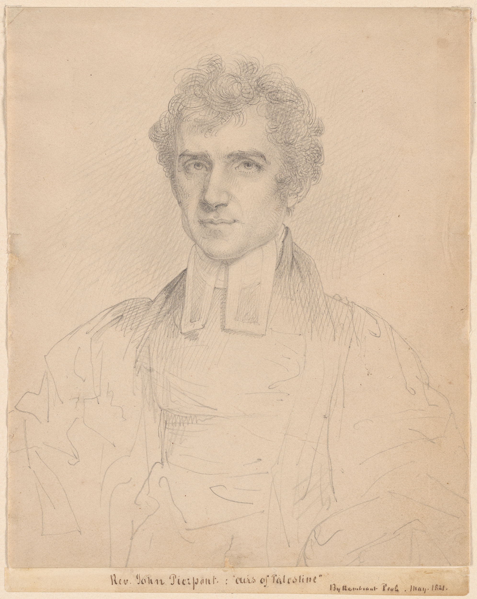 Portrait of John Pierpont (1785-1866) drawn by Rembrandt Peale (1778-1860) in Baltimore, Maryland, USA in May, 1821. Pencil on cream wove paper. 7 11/16 x 6 3/8 inches (196 x 162 mm). Part of the Morgan Family Collection at The Morgan Library & Museum